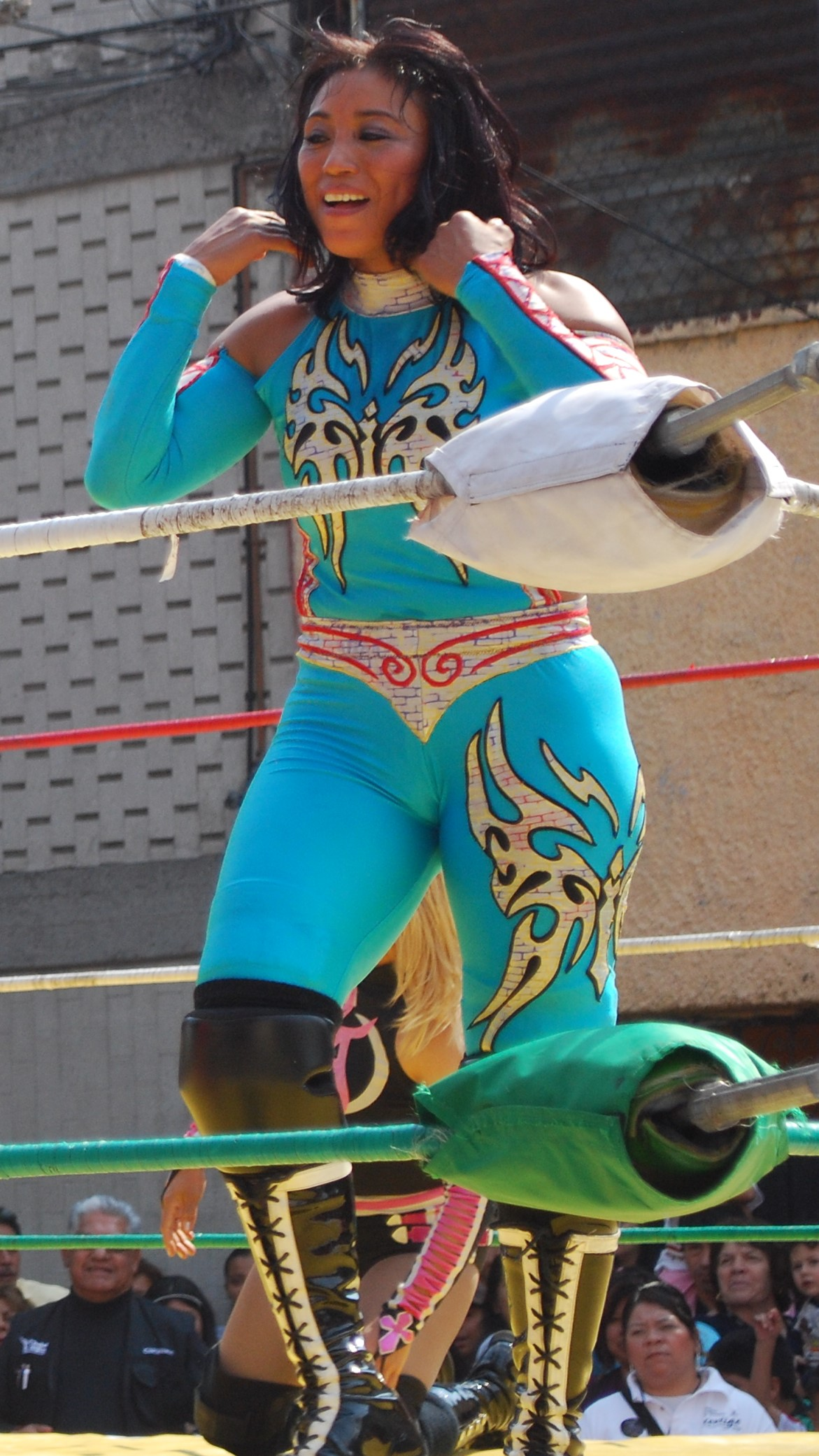 Marcela during a match in 2013.